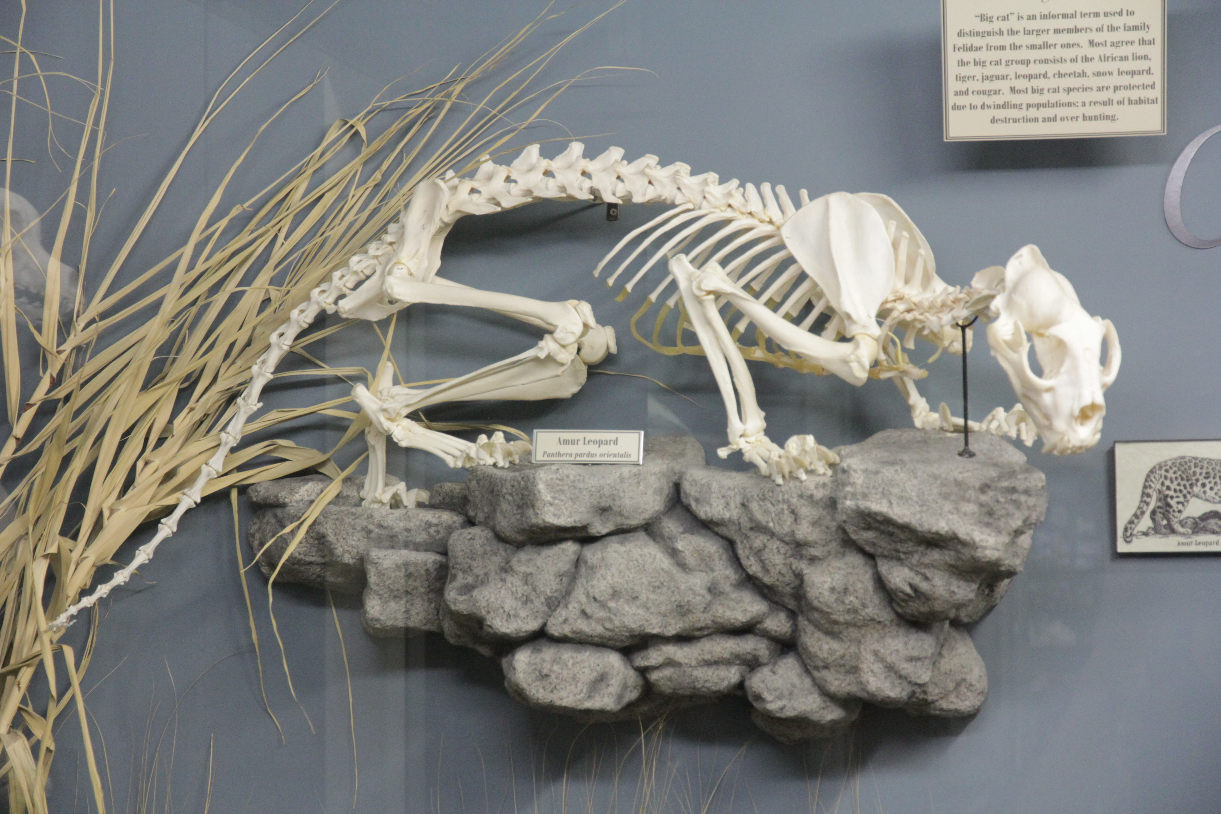 Skeleton of an Amur Leopard on display at the Museum of Osteology